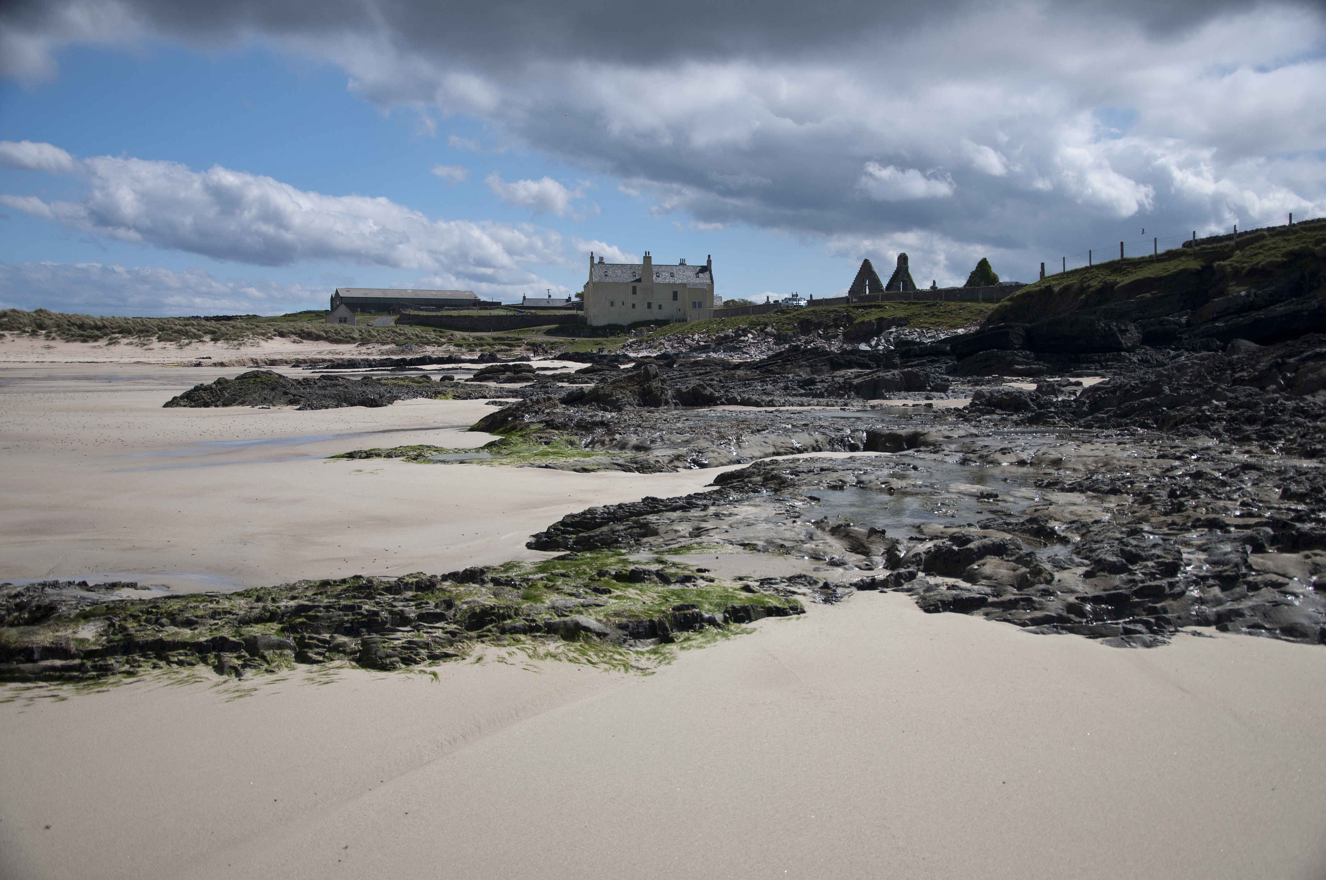 Balnakeil House and church at the Balnakeil Bay, Sutherland, Scotland